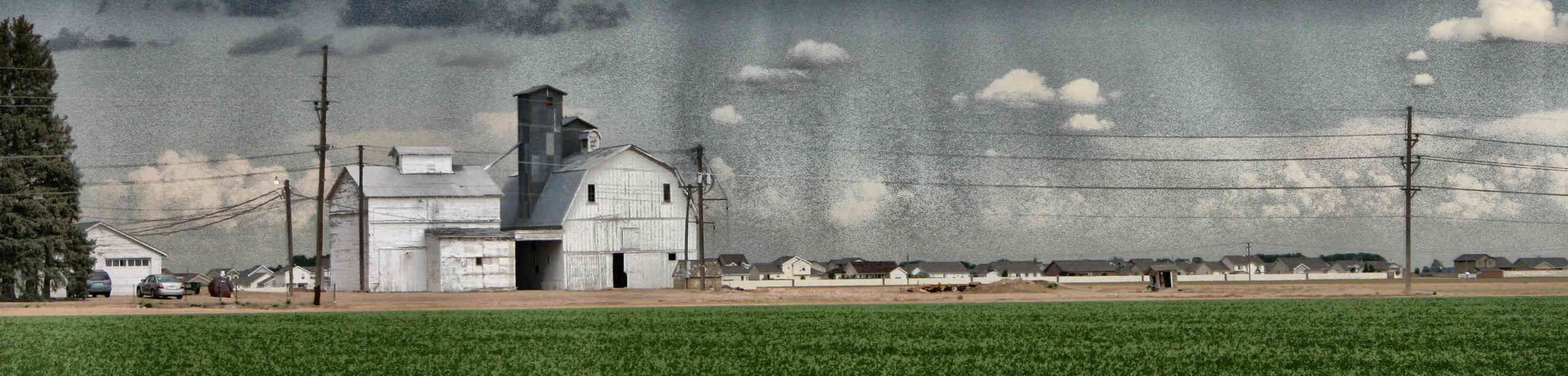 Eaton, Colorado Barn in Spring 2007